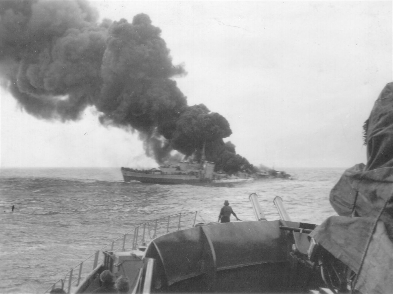 HMS Gurkha, more than 1 hour after being torpedoed